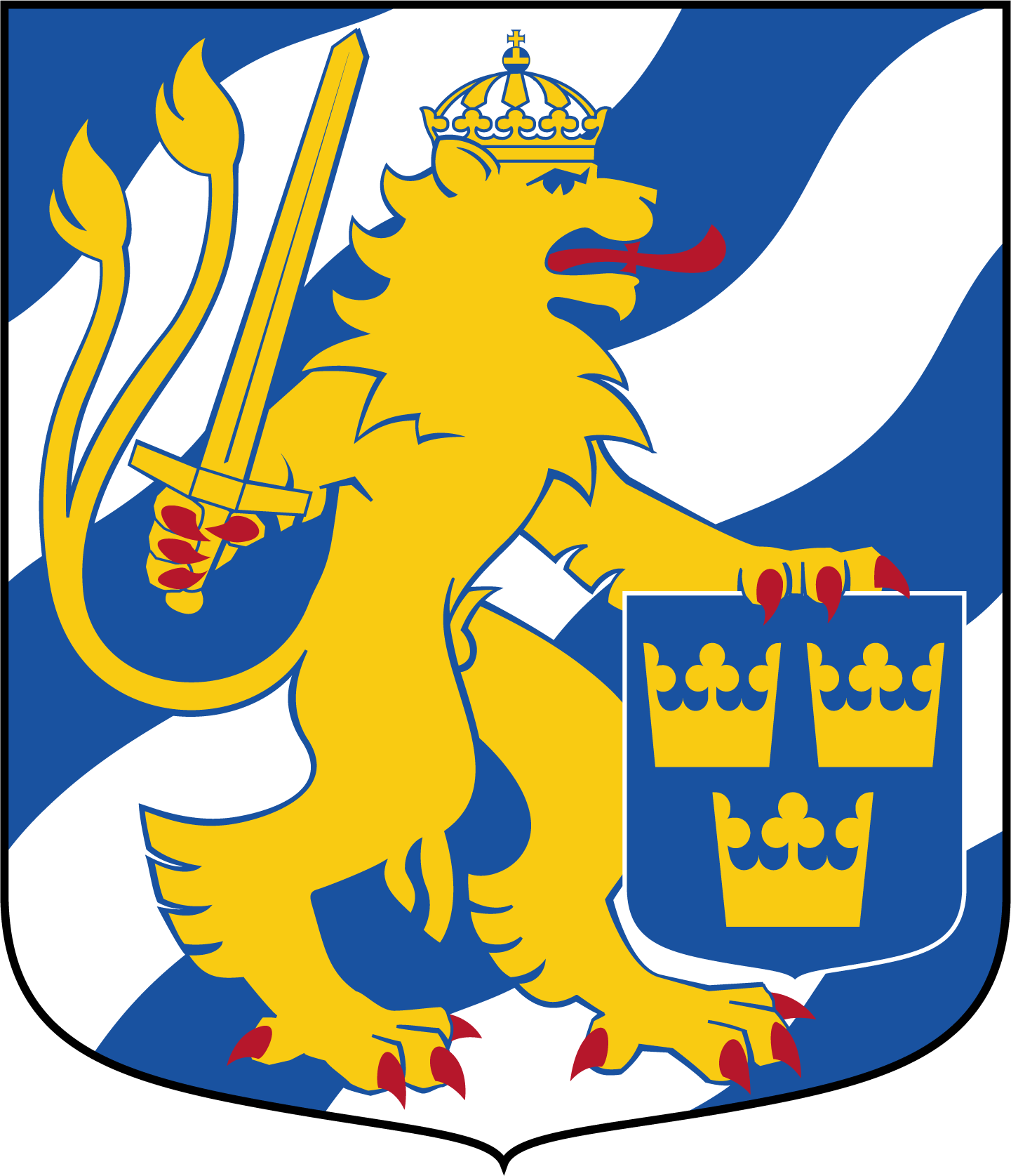 Coat of arms of the municipality of Göteborg, Sweden. Painted by Vladimir A. Sagerlund when he was the heraldic artist at the National Archives of Sweden (Riksarkivet). This representation of a coat of arms is potentially different from the one used by the armiger (municipality or organisation) in question. = ⇑“Sable, a lionrampant or” This coat of arms was drawn based on its blazon which – being a written description – is free from copyright. Any illustration conforming with the blazon of the arms is considered to be heraldically correct. Thus several different artistic interpretations of the same coat of arms can exist. The design officially used by the armiger is likely protected by copyright, in which case it cannot be used here.Individual representations of a coat of arms, drawn from a blazon, may have a copyright belonging to the artist, but are not necessarily derivative works. Further information: Commons:Coats of arms and Template:Coa blazon